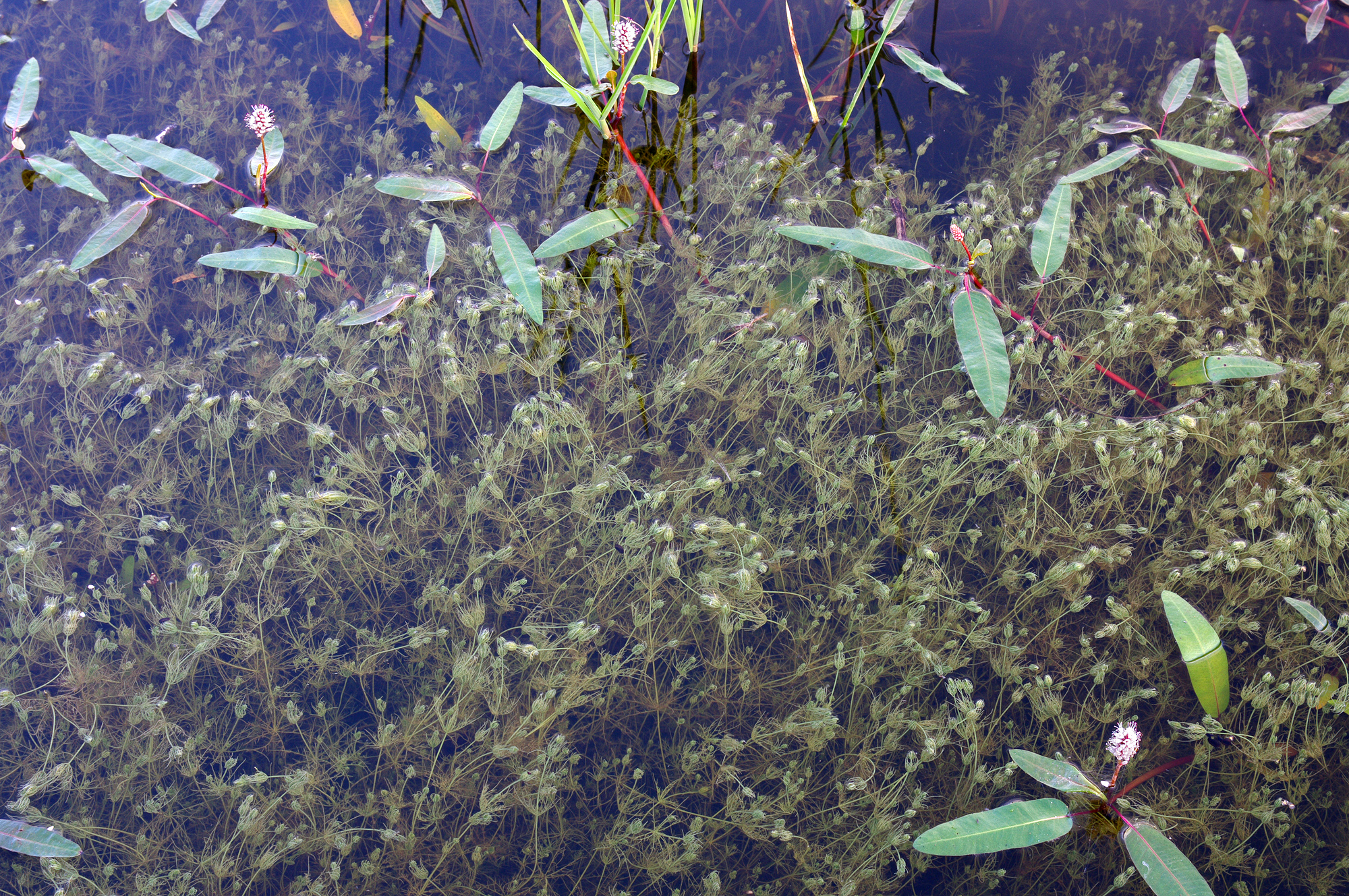 Submerse meadow of stoneworts algae from the species Chara vulgaris in a shallow pond (in association with Persicaria amphibia).